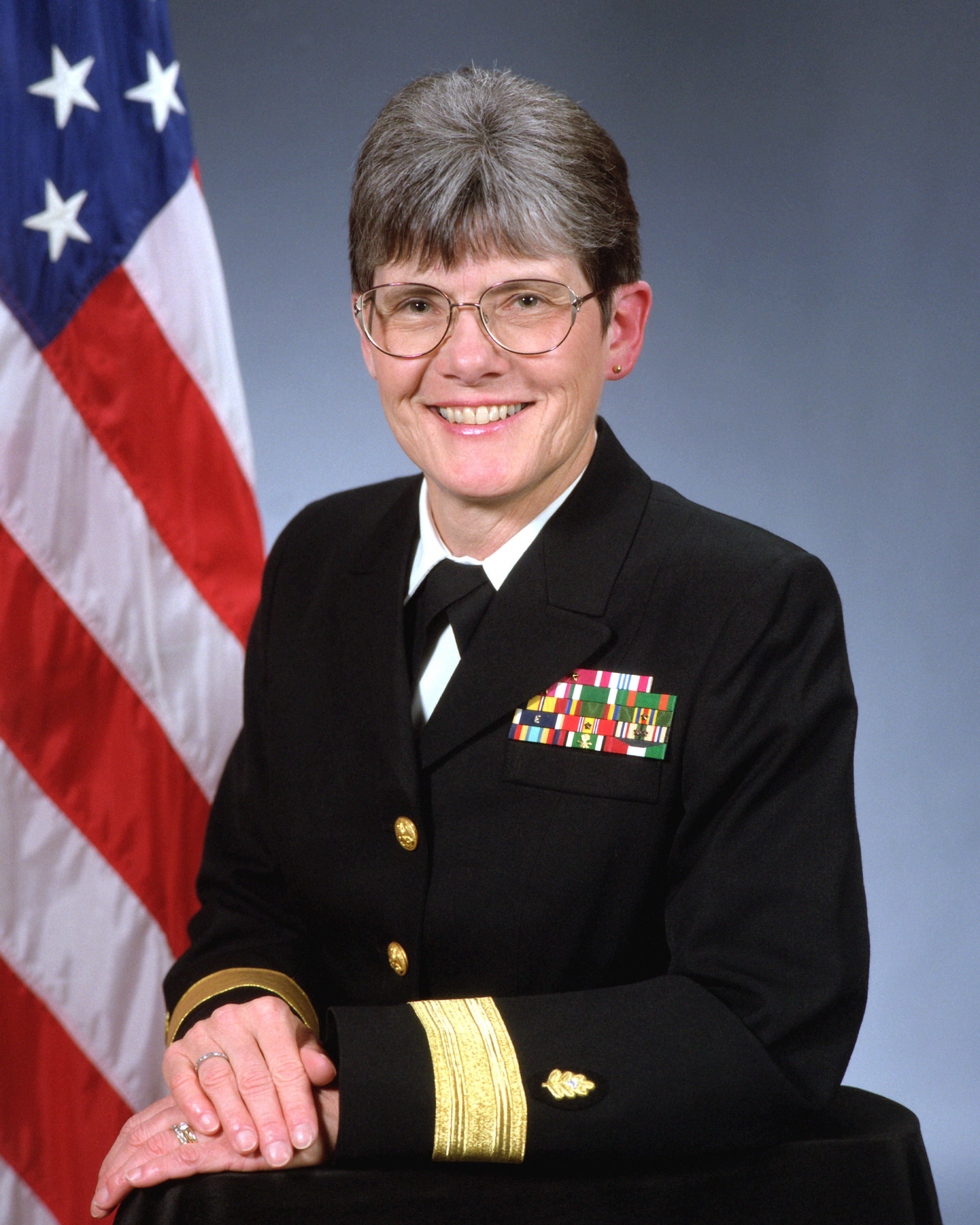 Rear Adm. (lower half) Bonnie B. Potter